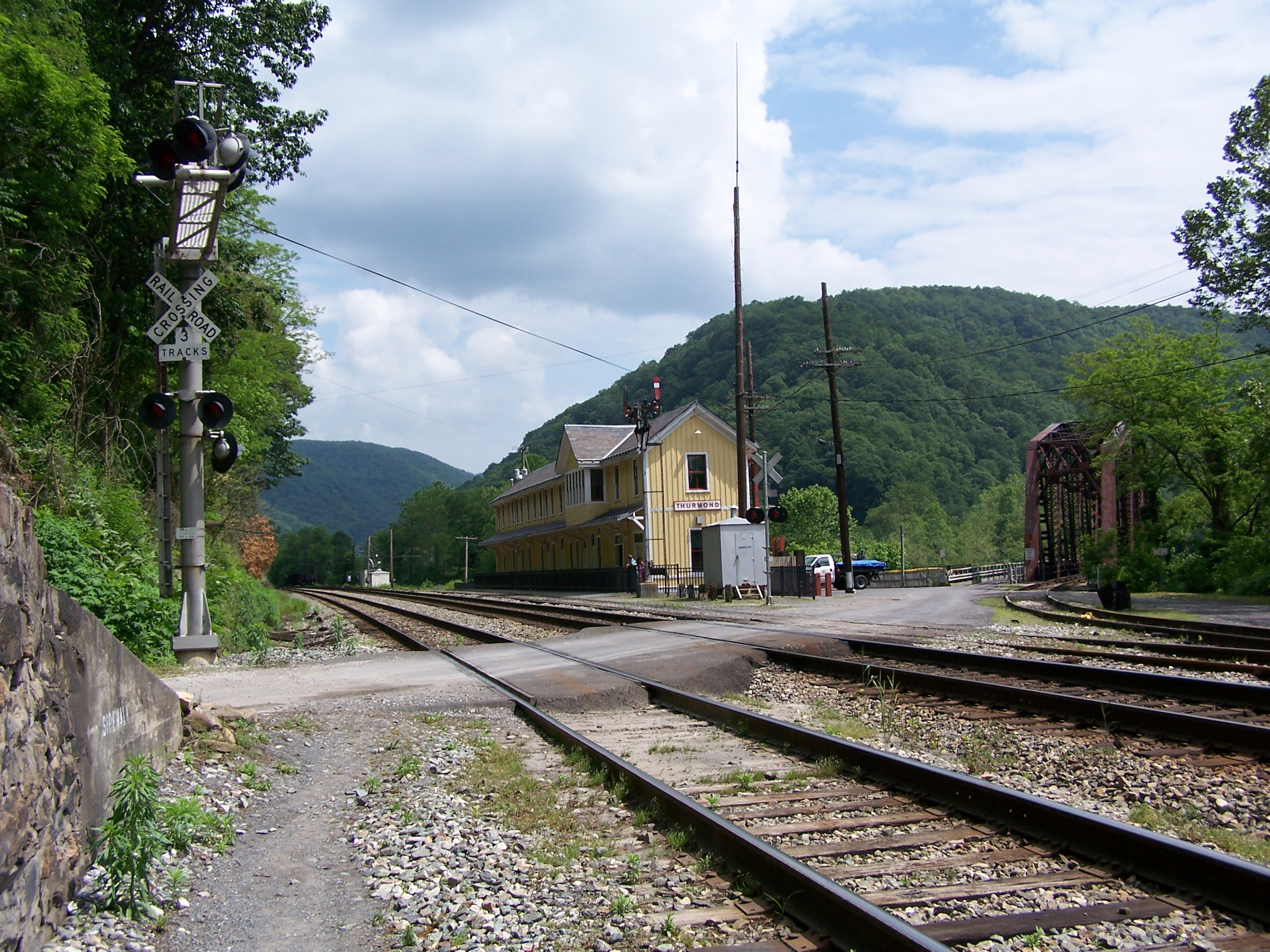 Thurmond, West Virginia, depot, now a National Park Service visitor center, and CR 25/2 bridge over the New River.